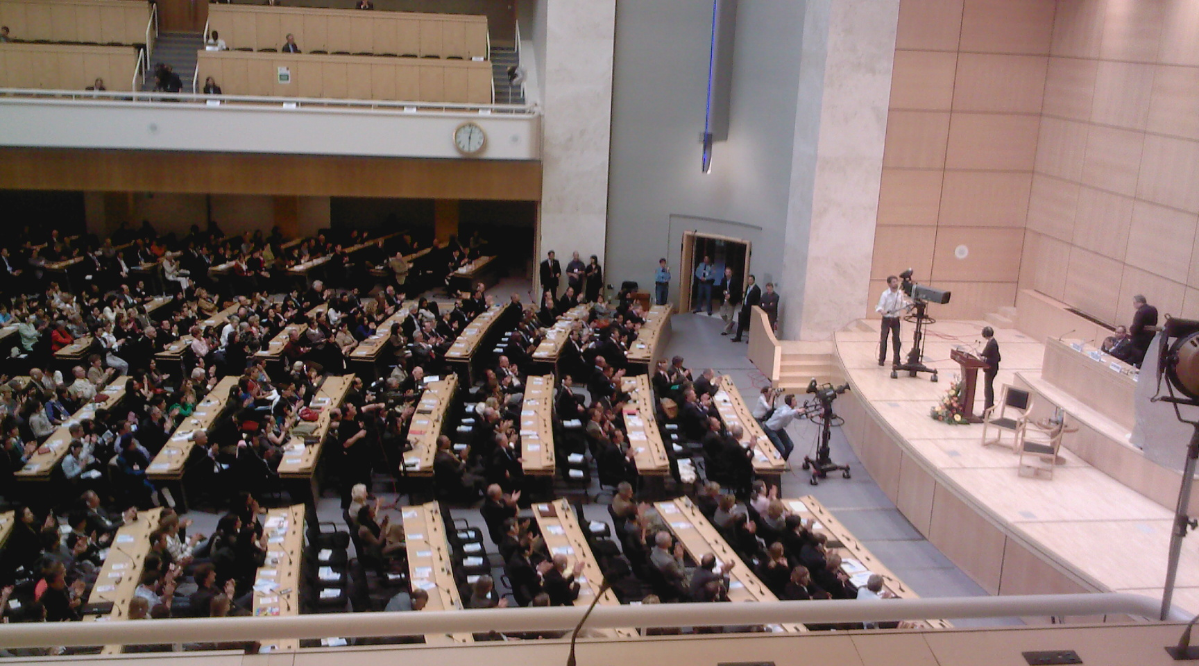 Opening Session of the Preperatory Committee for the 2010 Review Conference of the State Parties to the Nuclear Non-Proliferation Treaty. (NTP Prepcom), 2008 in Geneva